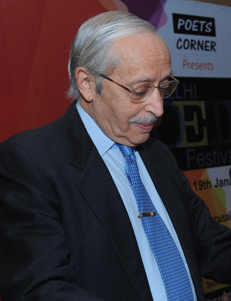 Ashok Sawhny in the "1st Delhi Poetry Festival" at New Delhi on 19th January 2013